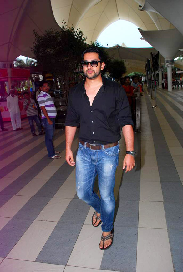 Aftab Shivdasani returns from IIFA 2012